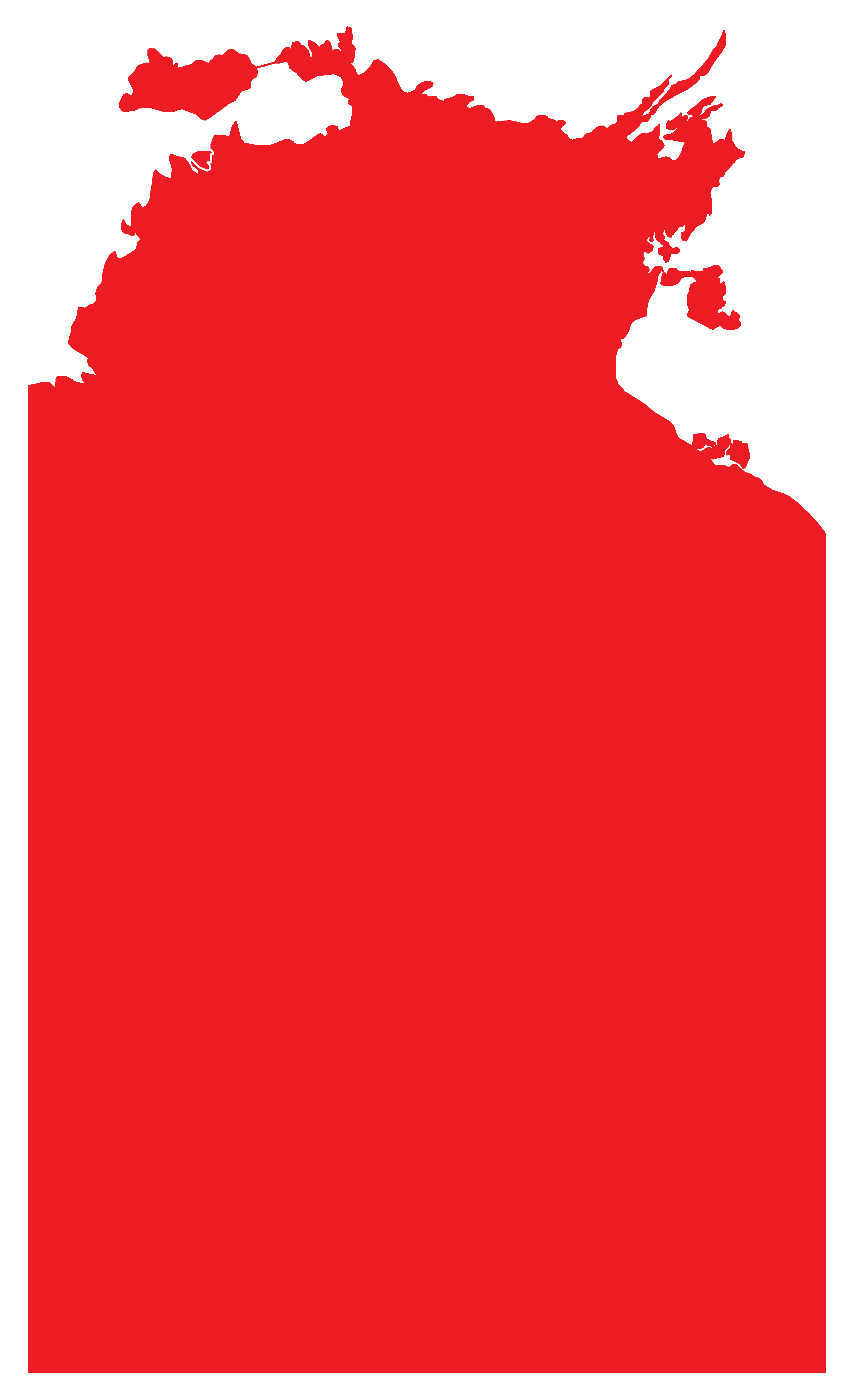 Results map of the Australian federal election, 2016 in the Northern Territory, showing federal electorates decorated in the color representing a win by a particular party.